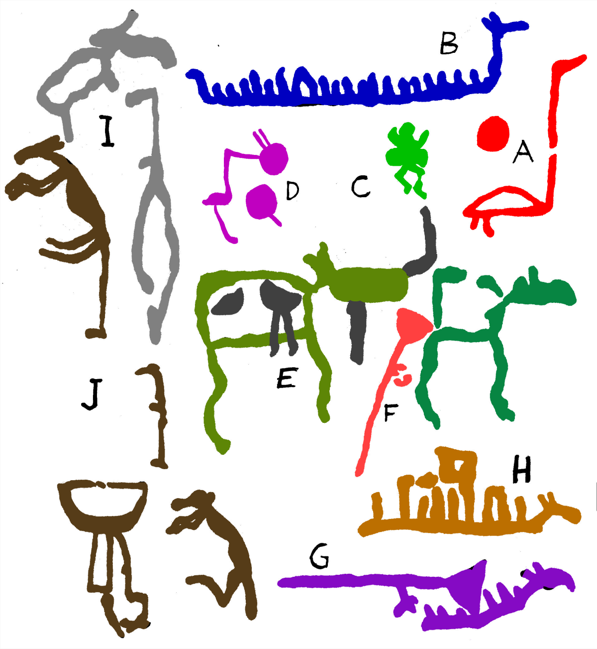 Petroglyphs from site Karetski Nos from Lake Onega in Carelia Russia